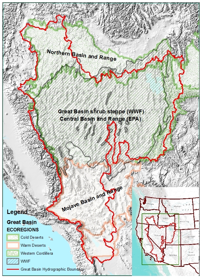 Level III Ecoregions within the Great Basin Hydrographic Area. Created using .shp files from this site